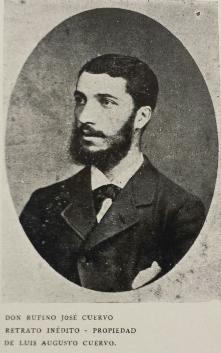 Portrait of a young Rofino José Cuervo.